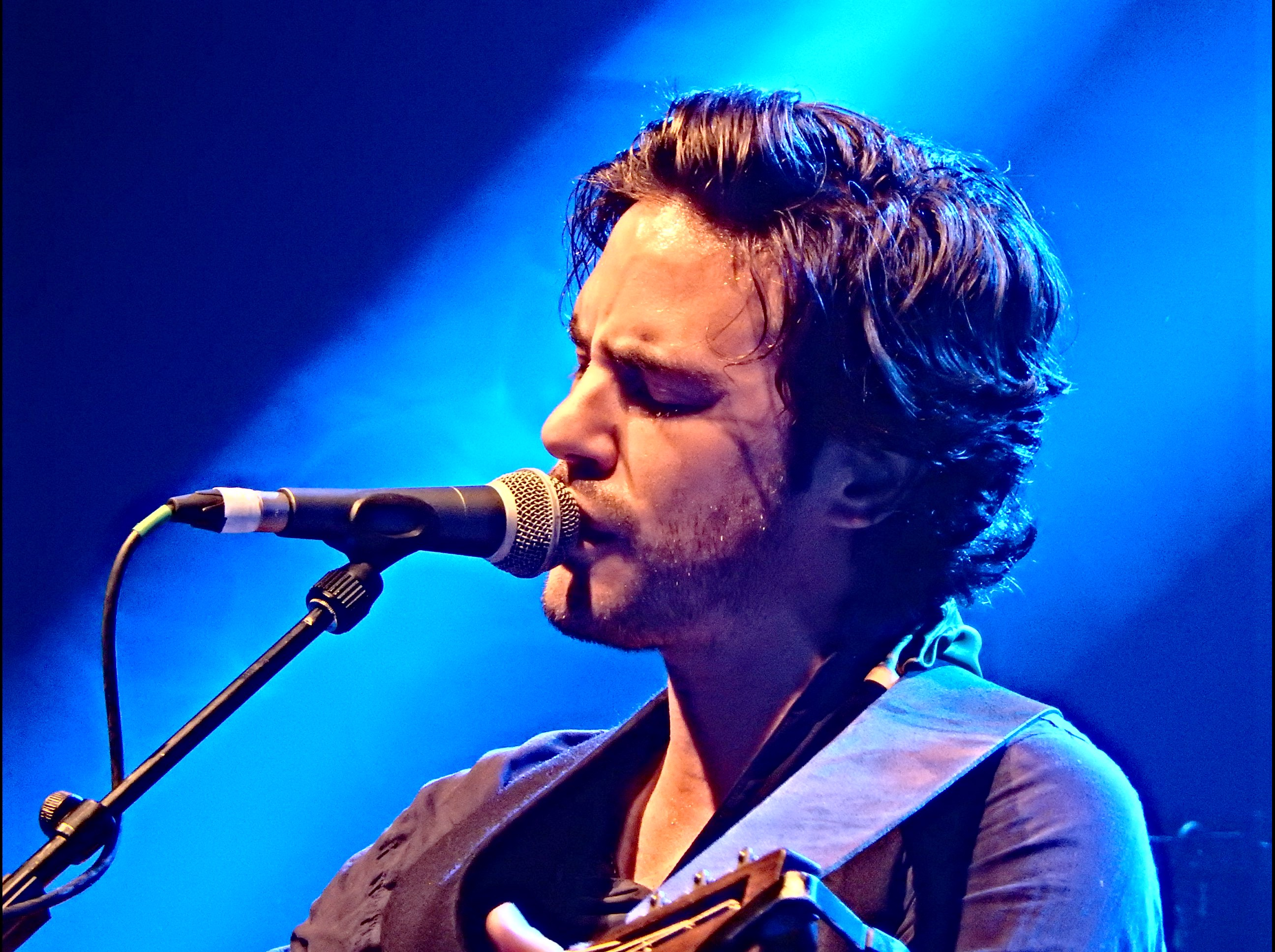 Jack Savoretti, Shepherds Bush Empire